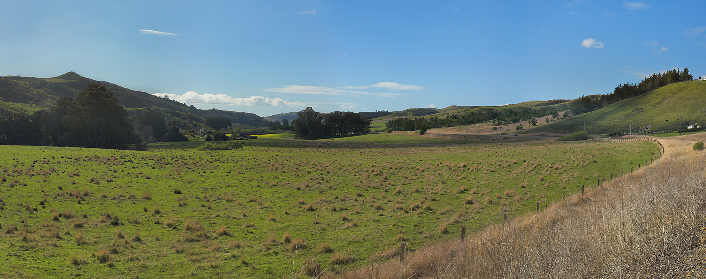 A typical open meadow in Half Moon Bay, CA.